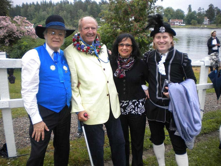 Lars Jacob, Hans Wallman, unidentified woman and Emil EiknerPlace: Wallman residence, Värmdö, Sweden